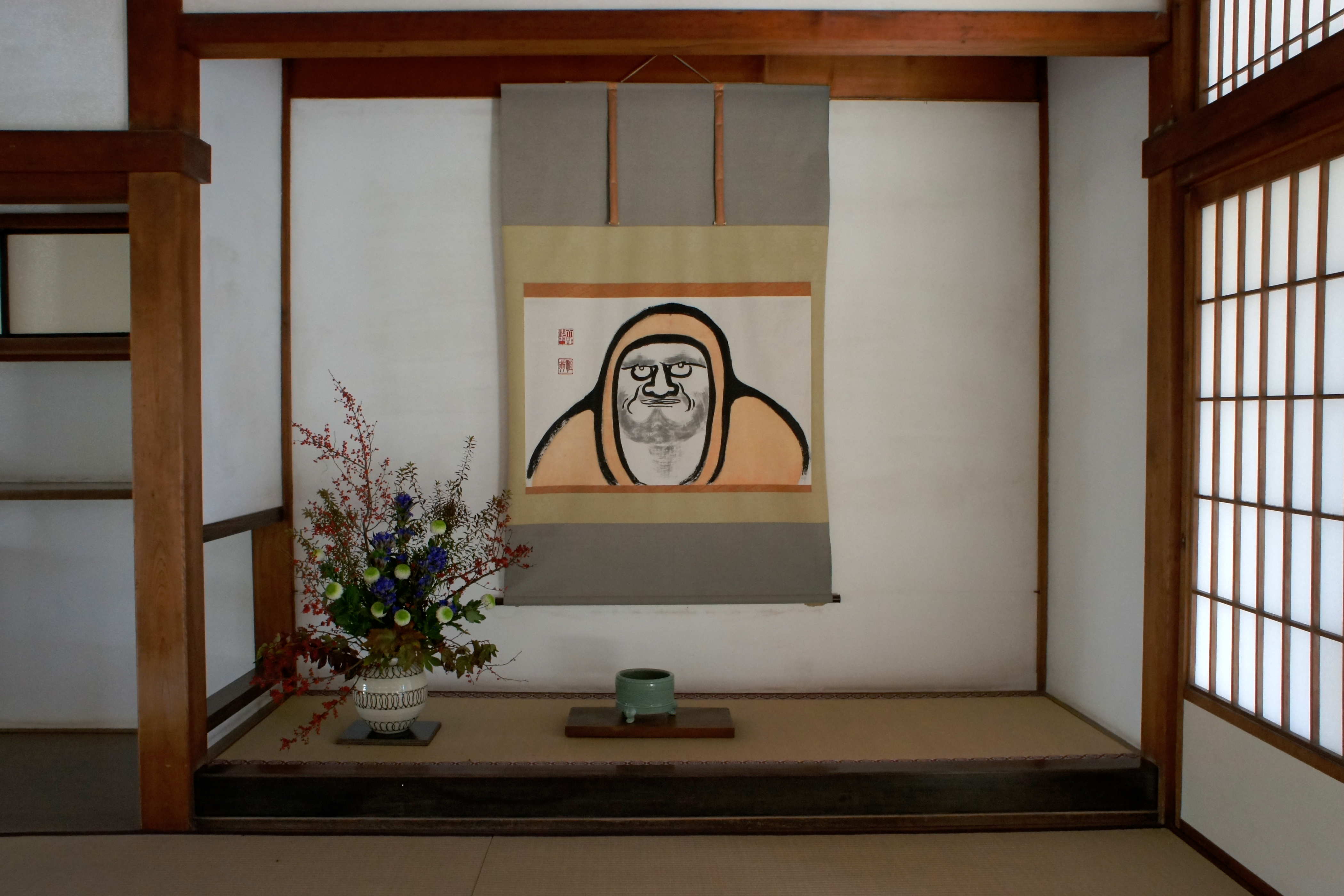 Tenryū-ji in Ukyō-ku, Kyoto, Kyoto prefecture, Japan